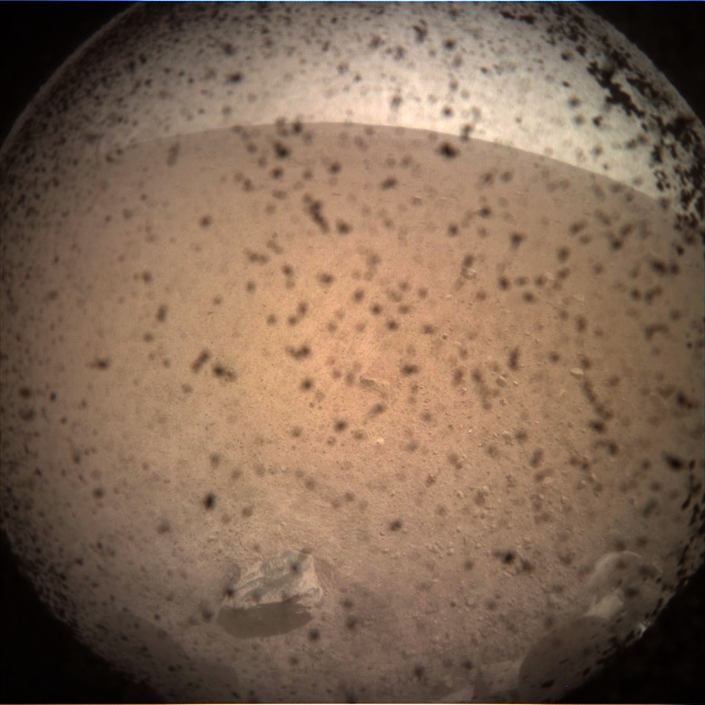 This is the first image taken by NASA's InSight lander on the surface of Mars. The instrument context camera (ICC) mounted below the lander deck obtained this image on Nov. 26, 2018, shortly after landing. The transparent lens cover was still in place to protect the lens from any dust kicked up during landing. NASA's Jet Propulsion Laboratory, a division of Caltech in Pasadena, California, manages the InSight Project for NASA's Science Mission Directorate, Washington. Lockheed Martin Space, Denver, Colorado built the spacecraft. InSight is part of NASA's Discovery Program, which is managed by NASA's Marshall Space Flight Center in Huntsville, Alabama. For more information about the mission, go to